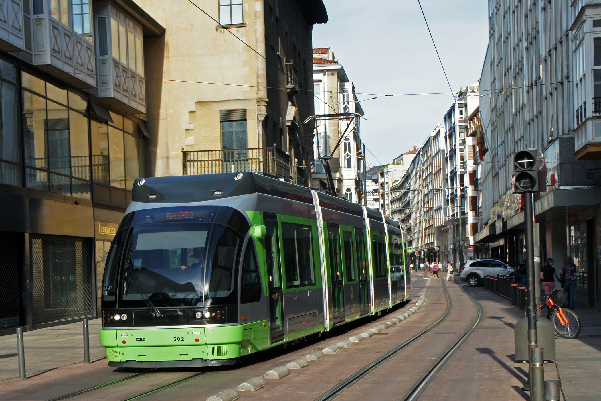 EuskoTran Vitoria-Gasteiz, downtown Vitoria, Basque Country, Spain